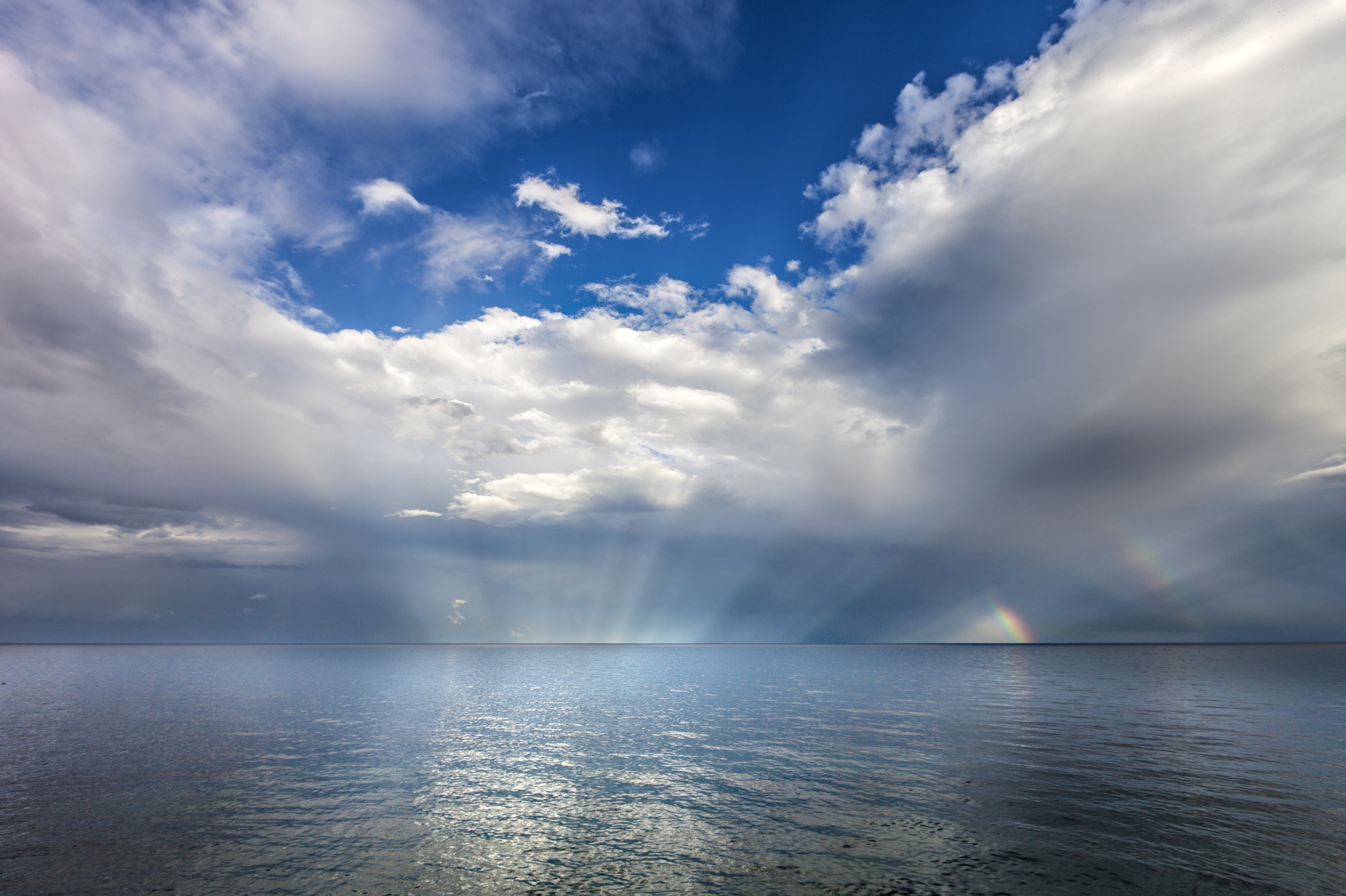 Anticrepuscular rays and double rainbow opposite the setting sun on the northern shore of Lake Ontario.